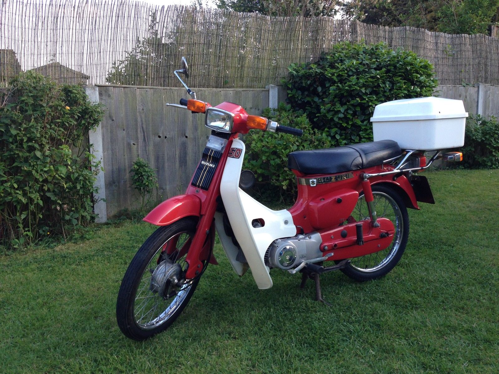 A U.K Spec 1982 Suzuki FR50